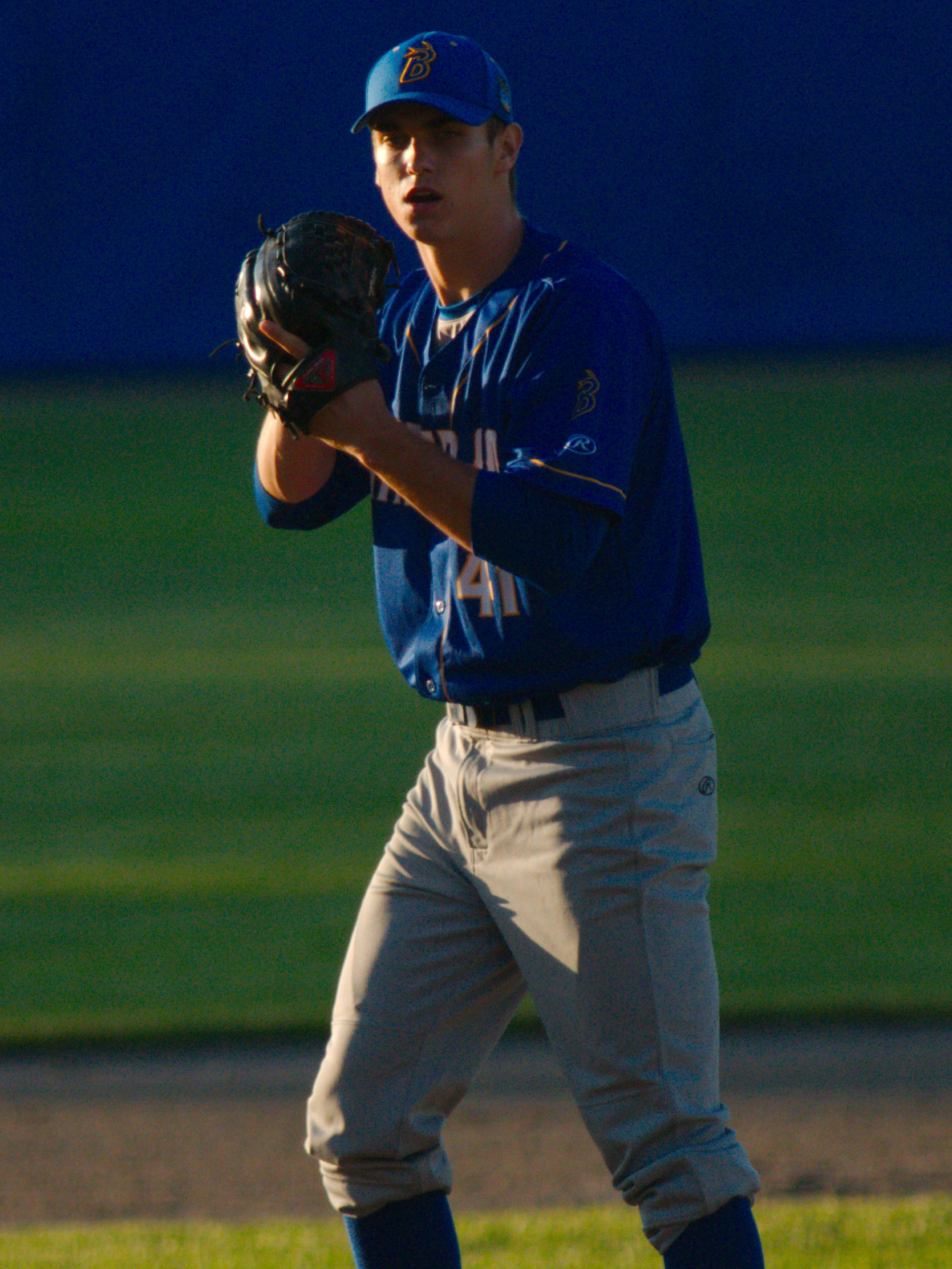 Cody Sedlock with the Waterloo Bucks during a June 2014 game in Battle Creek, Michigan